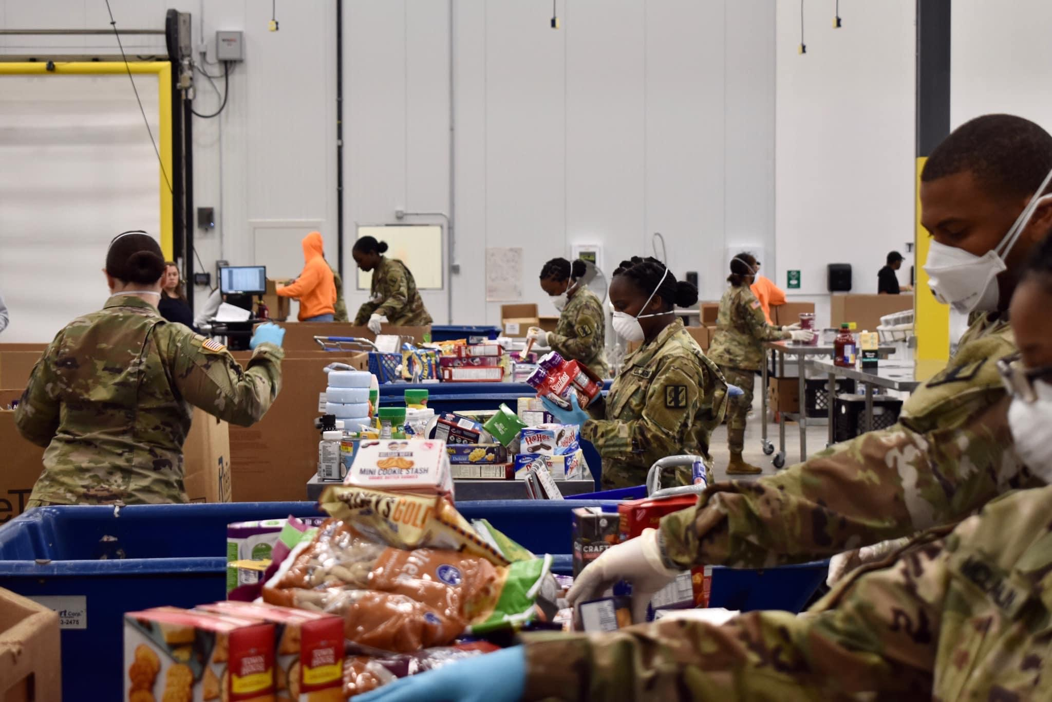 Soldiers from the 1177th Transportation Company support warehouse and distribution operations at the Atlanta Community Food Bank as a part of the Georgia National Guard COVID-19 response force, April 2020. U.S. Army National Guard photo by Major Charles W. Westrip